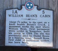 Plaque detailing William Bean's Cabin